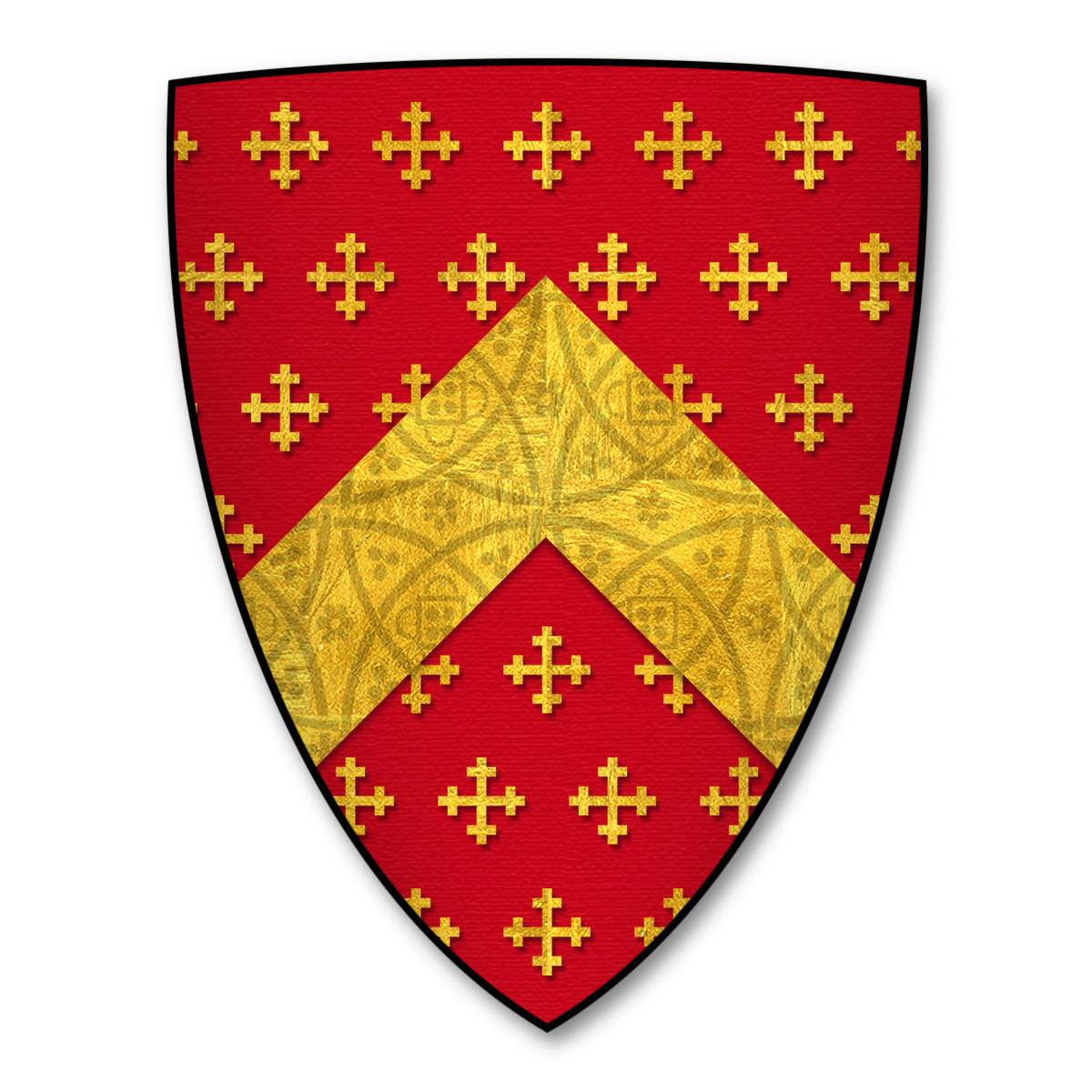 Coat of Arms of Phillip de Kyme, as blazoned in the Caerlaverock Roll (K-005: "Phelippe le seignur de Kyme") "Ky portoit rouge o un cheveron De or croissilié tot environ." Arms: Gules, crusily and a chevron Or.